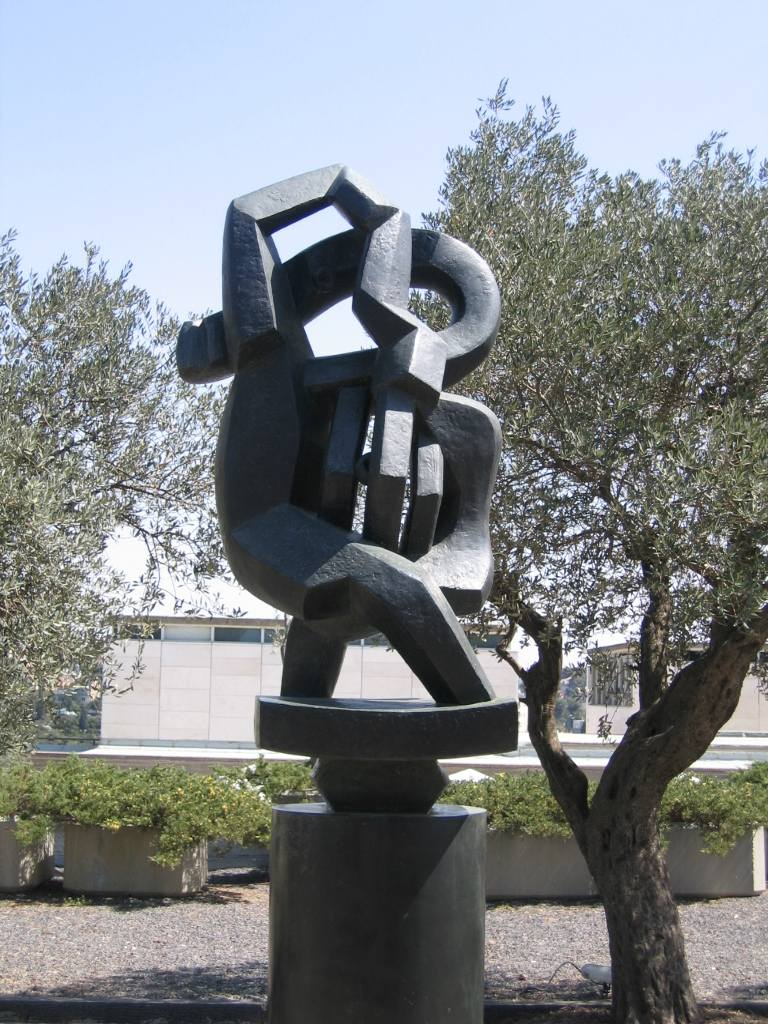 Jacques Lipchitz, "la joie de vivre" (1927) hoto by Yair Talmor, 16.3.2006, at the Israel Museum at Jerusalem